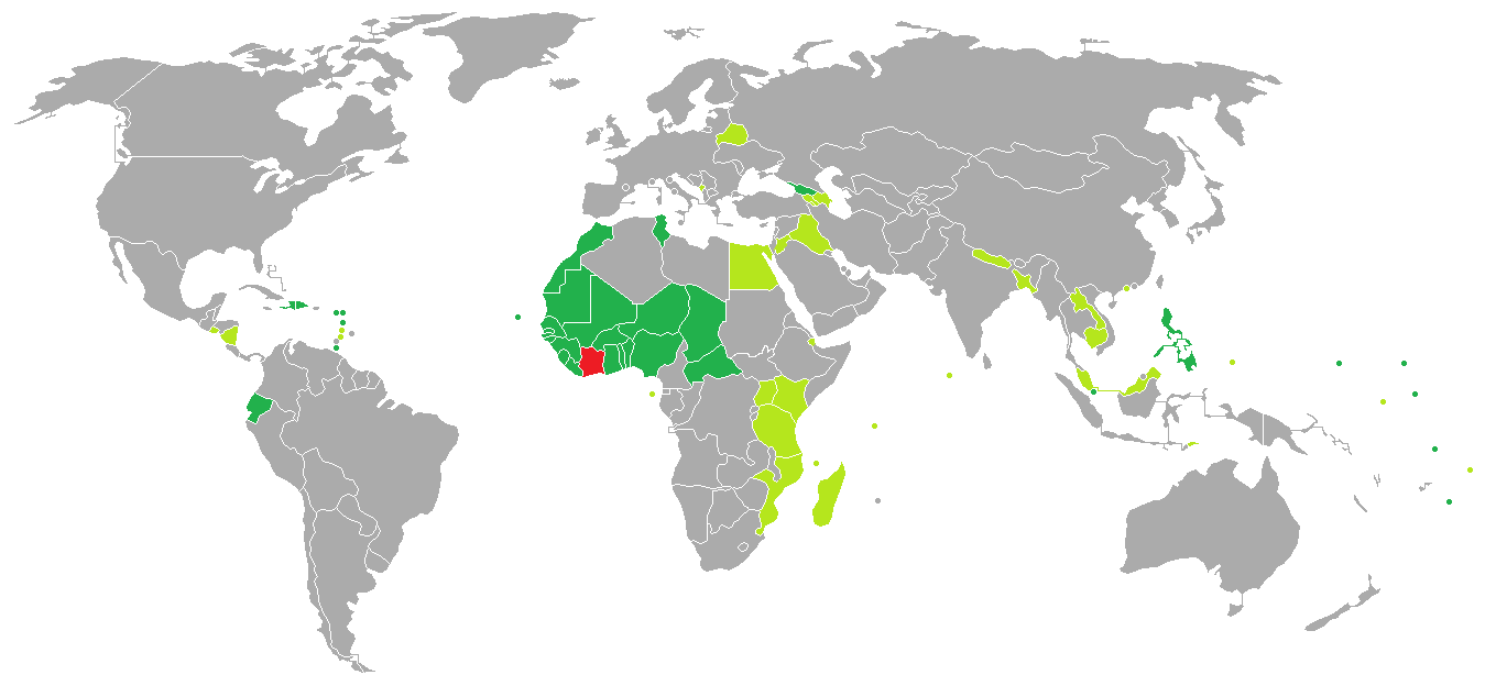 Visa requirements for ivorian citizens